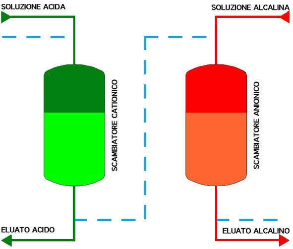 Schematic of regeneration of a ion exchange demineralizer (Italian description) Author : Ruben Castelnuovo (myself) 2006 03 25